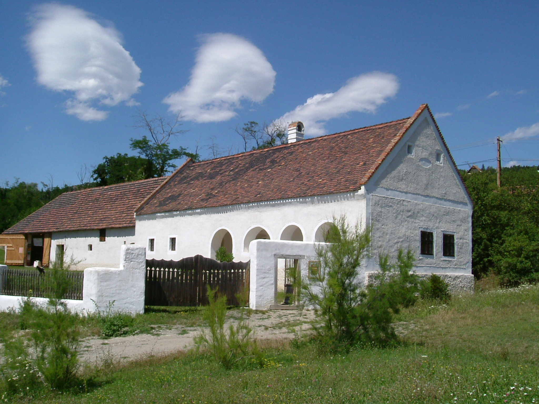 Dwelling house